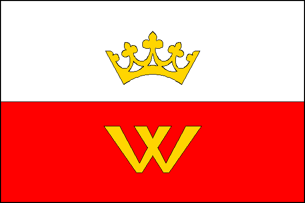 Flag of Jílové u Prahy municipality, Prague-West District, Czech Republic.